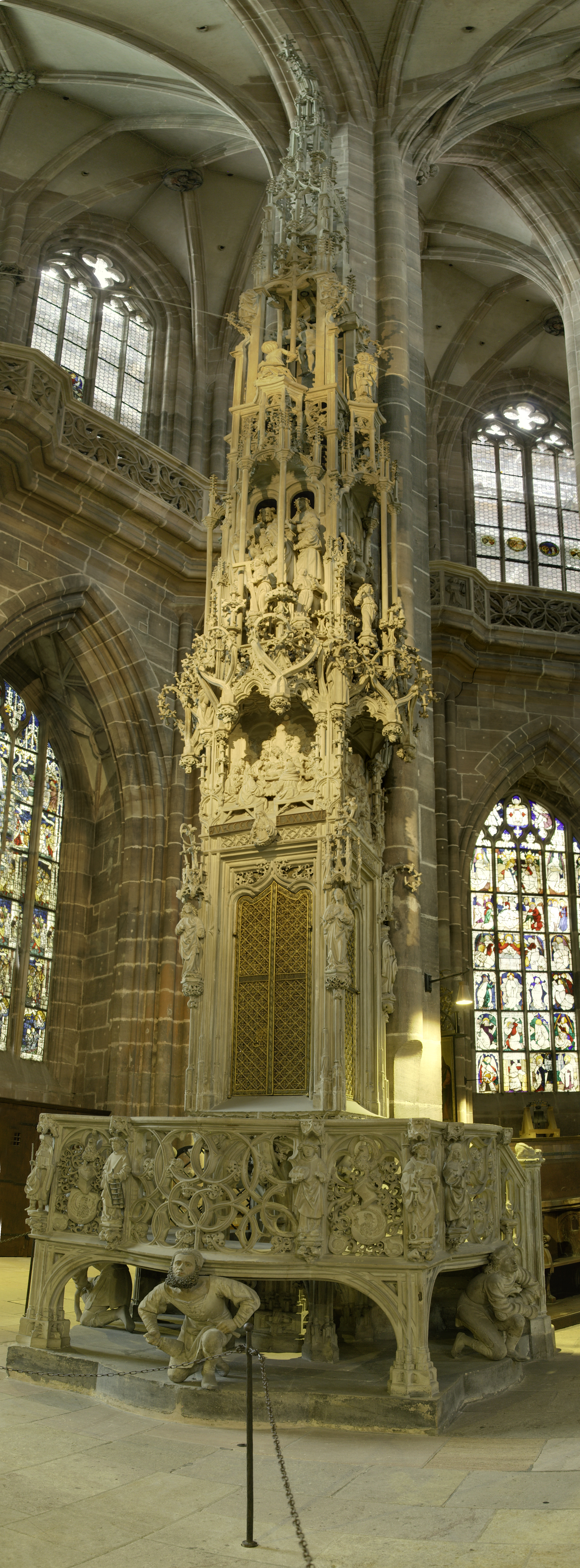 church tabernacle of Lorenzkirche, Nürnberg